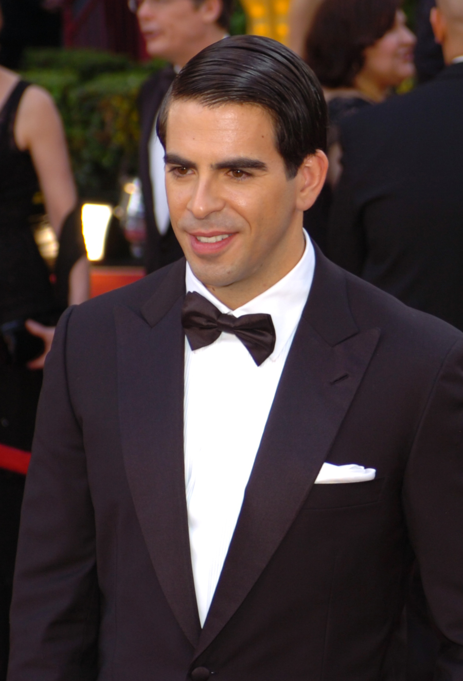 Eli Roth, aka Donnie Donowitz in "Inglourious Basterds," arrives at the 82nd Academy Awards, March 7, in Hollywood, Calif.